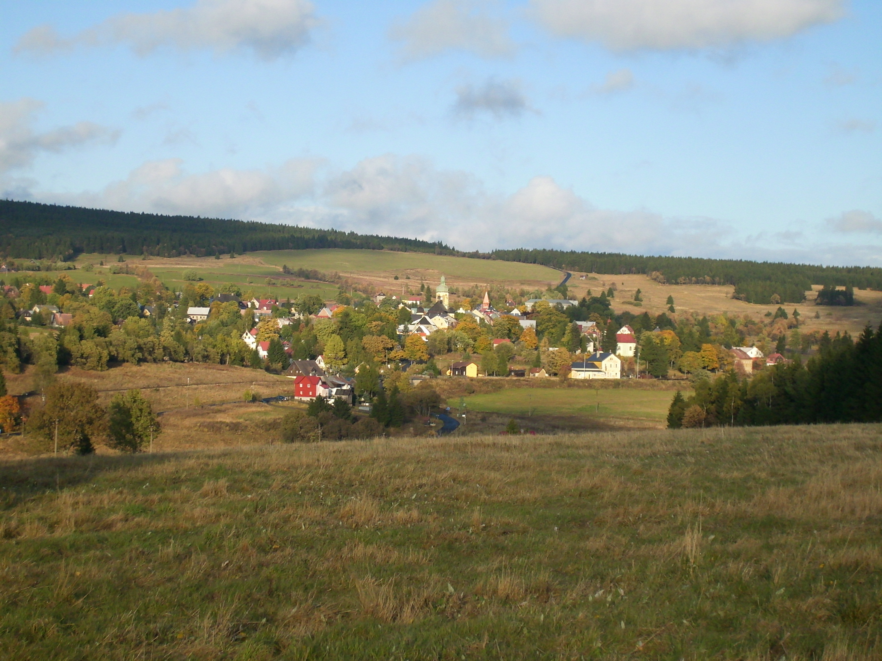 czech town Horní Blatná